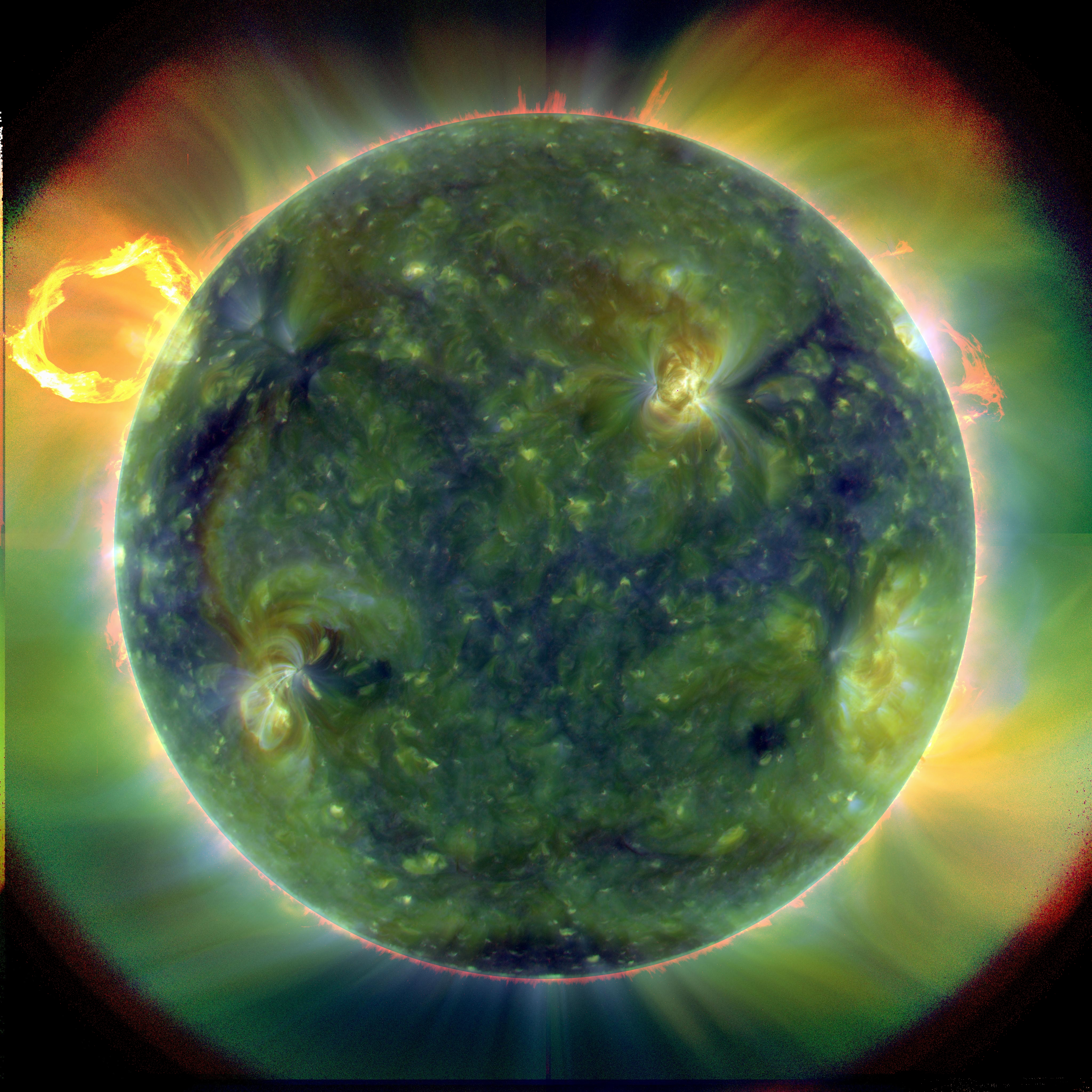 A full-disk multiwavelength extreme ultraviolet image of the sun taken by SDO on March 30, 2010. False colors trace different gas temperatures. Reds are relatively cool (about 60,000 Kelvin, or 107,540 F); blues and greens are hotter (greater than 1 million Kelvin, or 1,799,540 F).